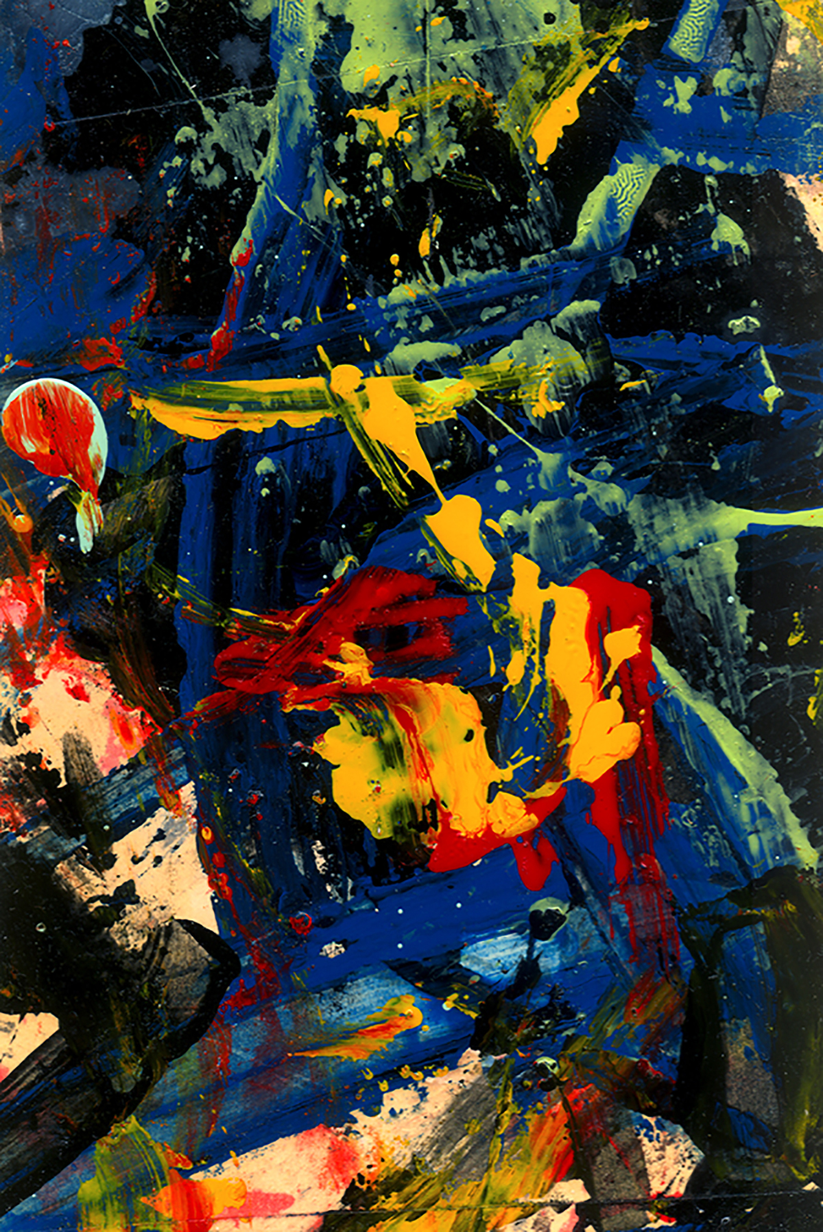 Abstract No. 25, also known as letting the brush danse (after a poem by bill bissett), a painting by Carle Hessay (1911-1978)